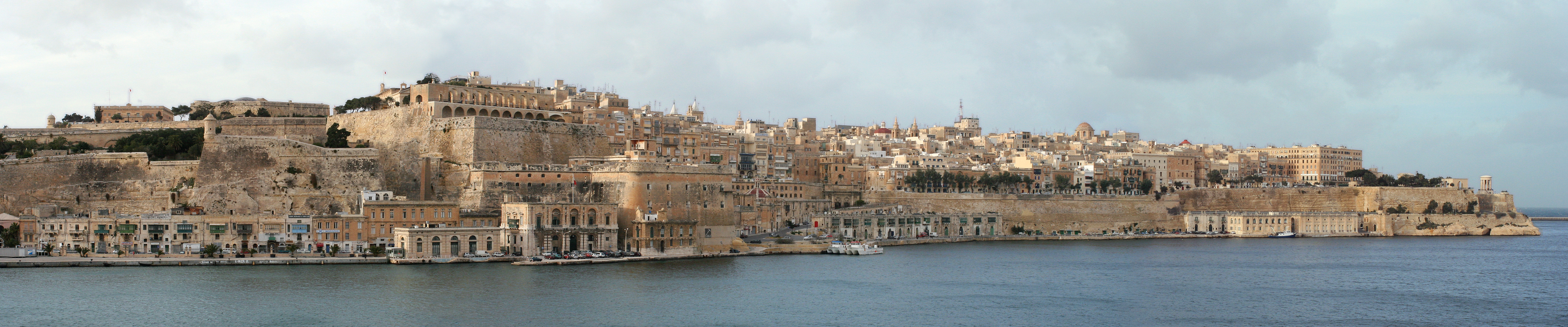 Malta, Valletta, seen from Senglea, panorama of Valletta's south coasts